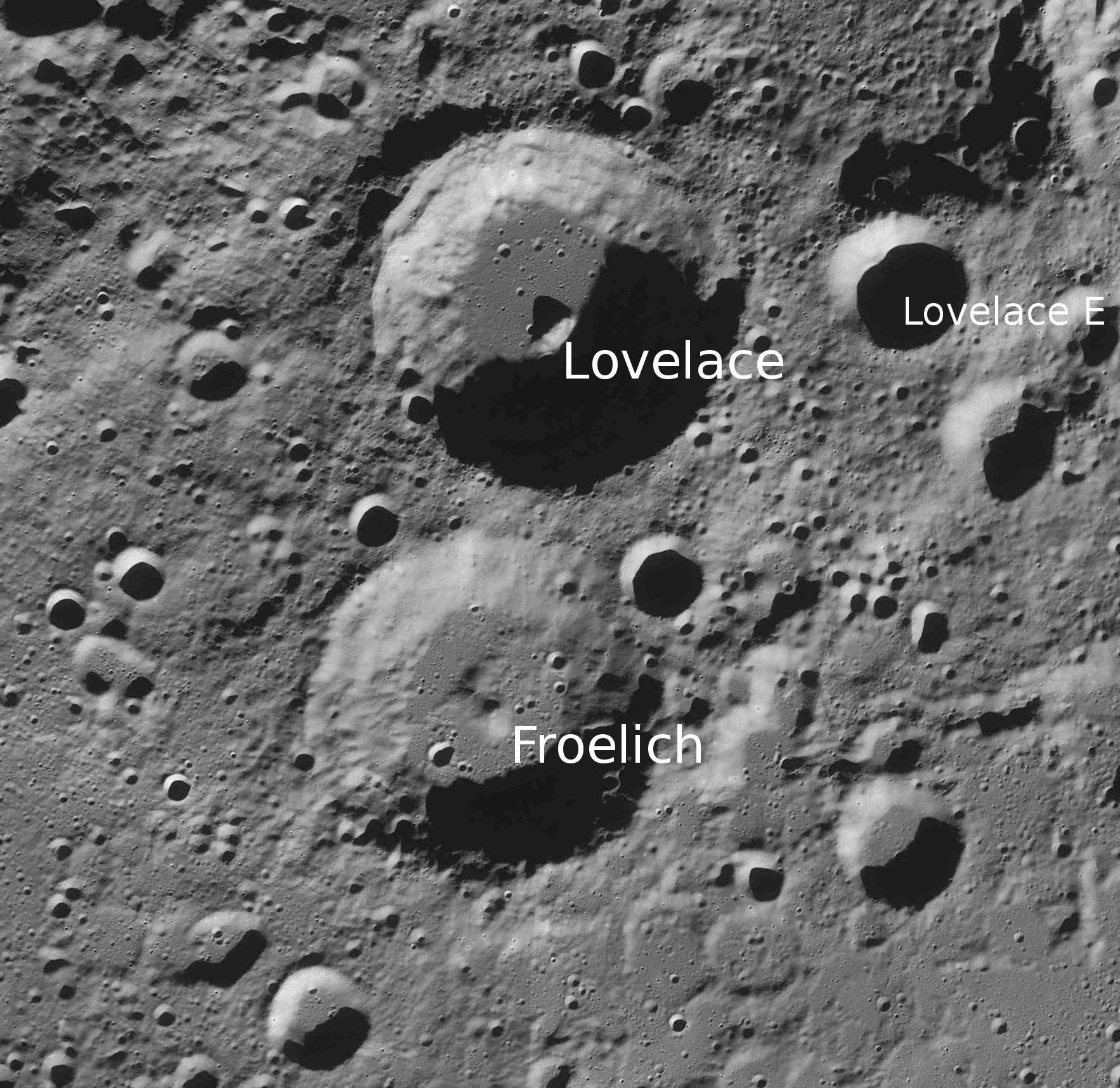 Moon craters Froelich (below) and Lovelace (above) (north at top; detail of LRO - WAC north pole mosaic)